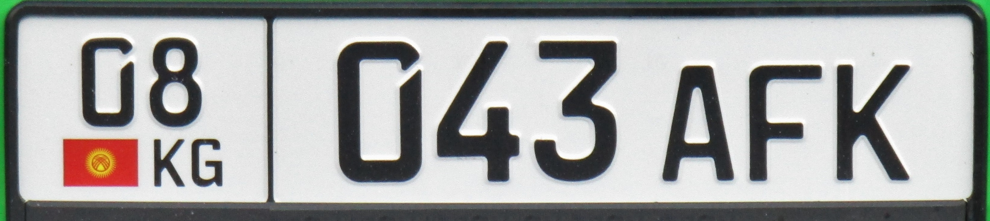 2015 Kyrgyzstan license plate, seen in Vorarlberg, Austria